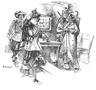 English explorer Captain George Weymouth